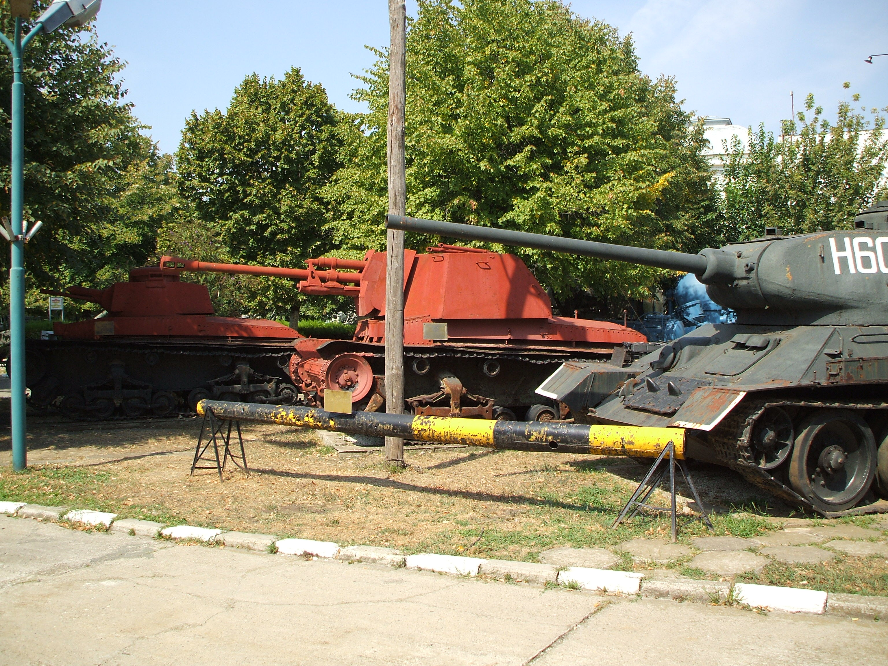 A Romanian TACAM R-2 tank destroyer (center) on display at "King Ferdinand" National Military Museum in Bucharest. The vehicle on the left is a Panzer 35(t), in the center is the TACAM R-2 tank destroyer and on the right is the T-35/85.